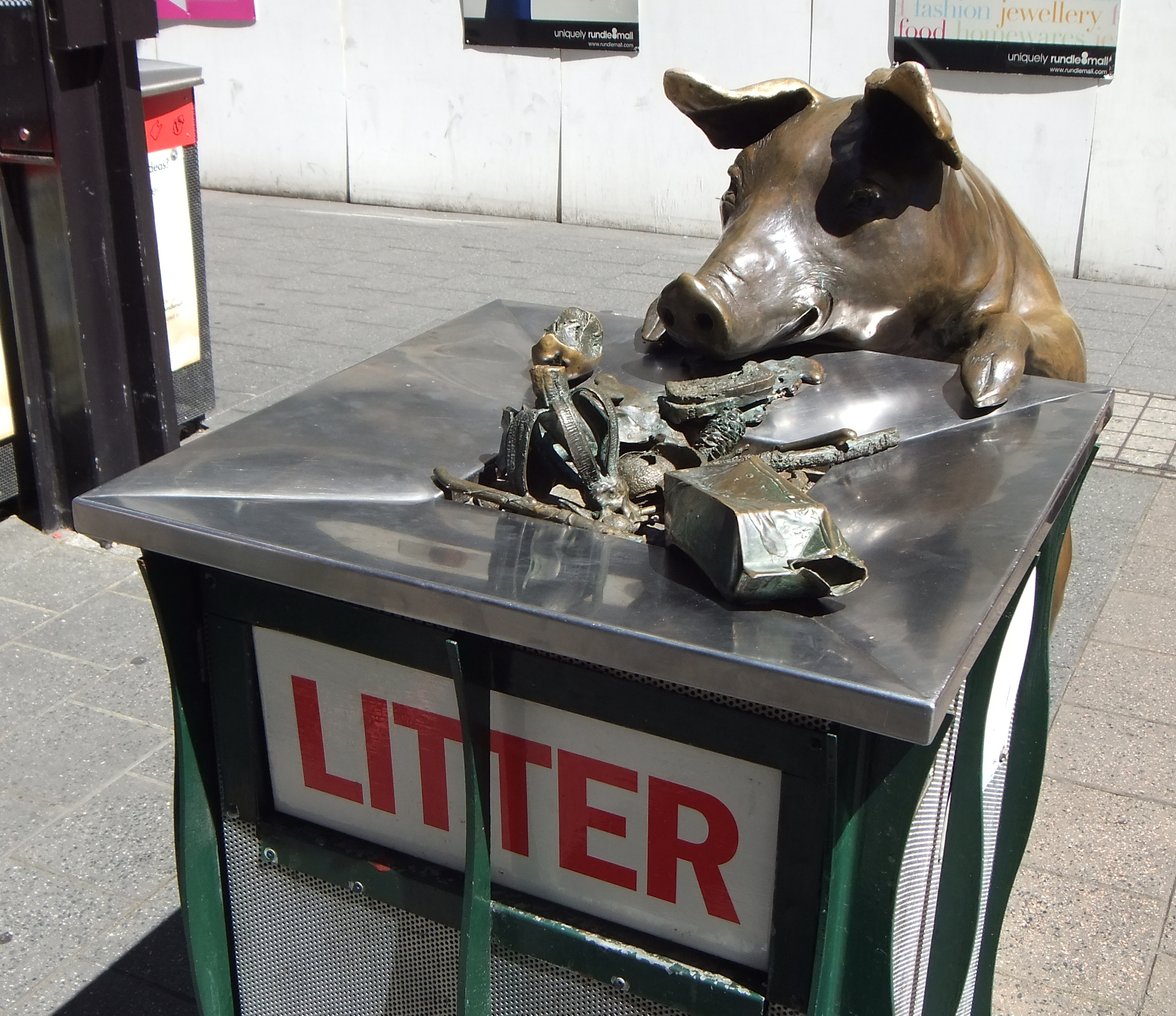 "Oliver" one of the pigs sculptures in Rundle Mall as part of A Day Out by Marguerite Derricourt.